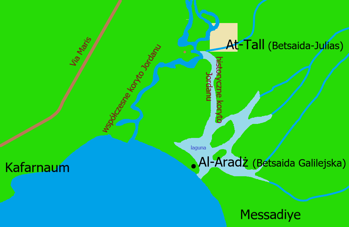 Location of Bethsaida map, based on: Bargil Pixner. Searching for the New Testament Site of Bethsaida. „Biblical Archaeologist”. 48 (4), p. 208, 1985. The American Schools of Oriental Research.